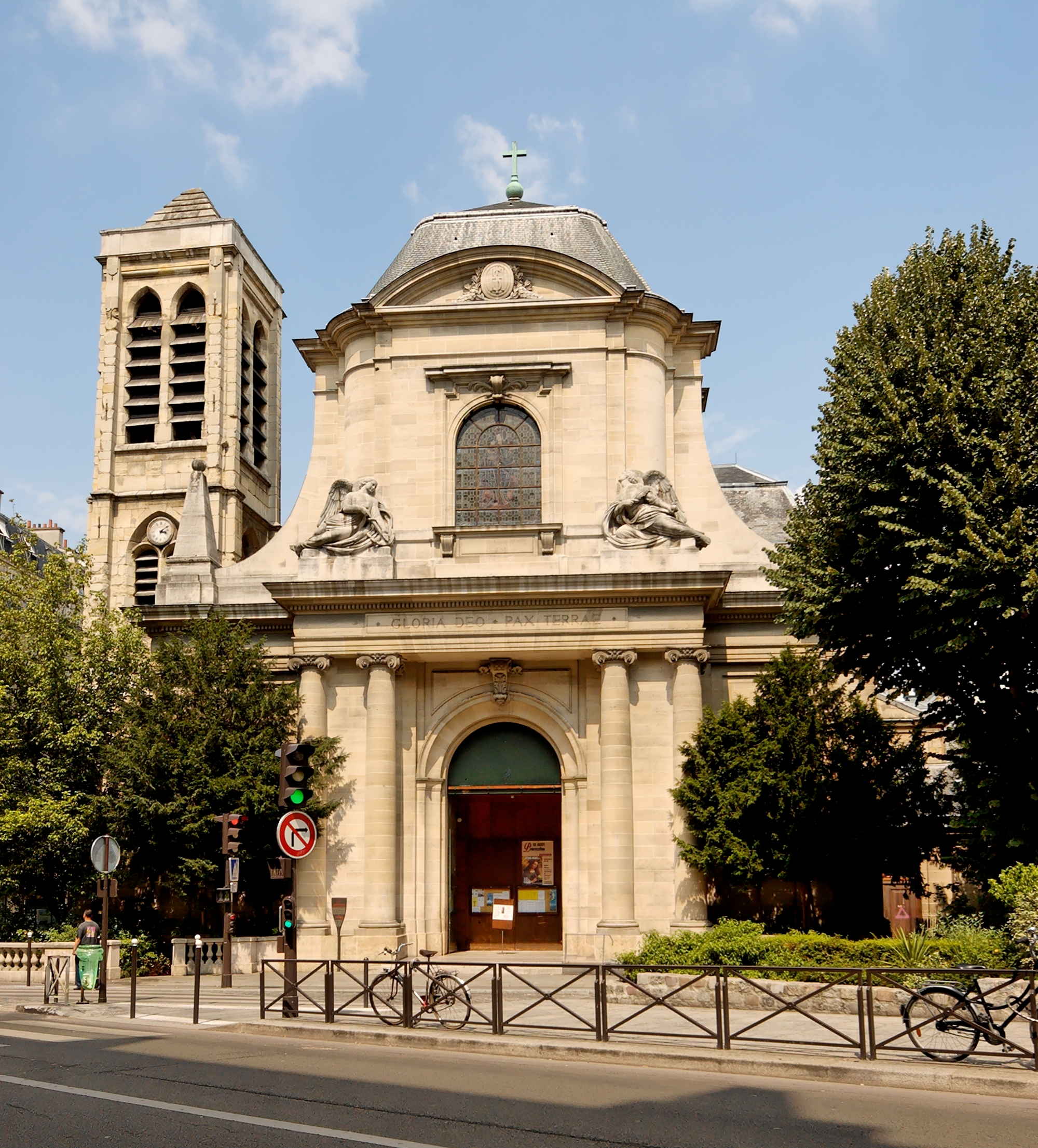 Façade of the catholic church Saint-Nicolas-du-Chardonnet, built in the 16th-17th centuries. Rue des Bernardins, Paris